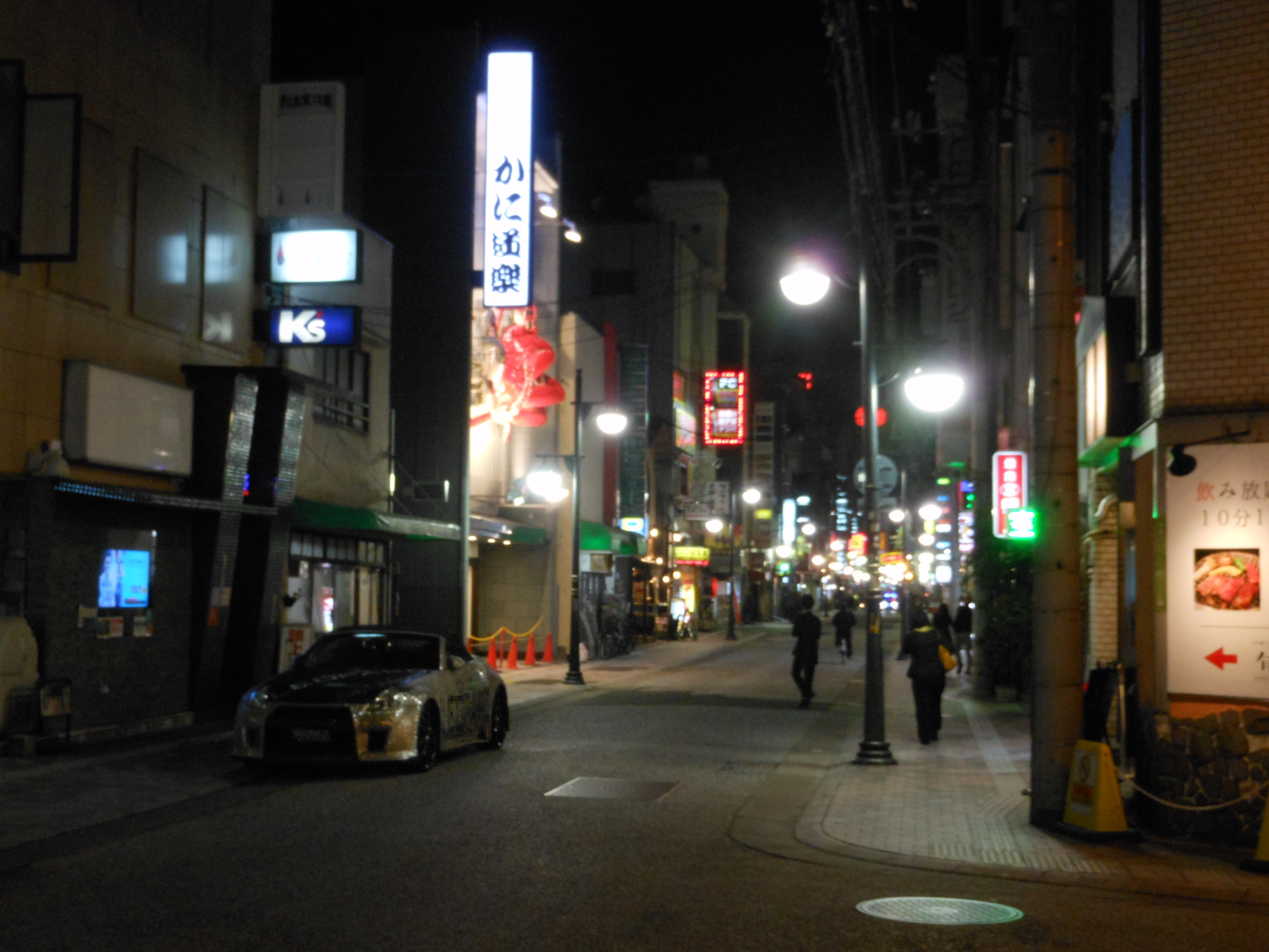 This is a night landscape of Nagarekawa-cho, Naka ward, Hiroshima city, Hiroshima prefecture, Japan.